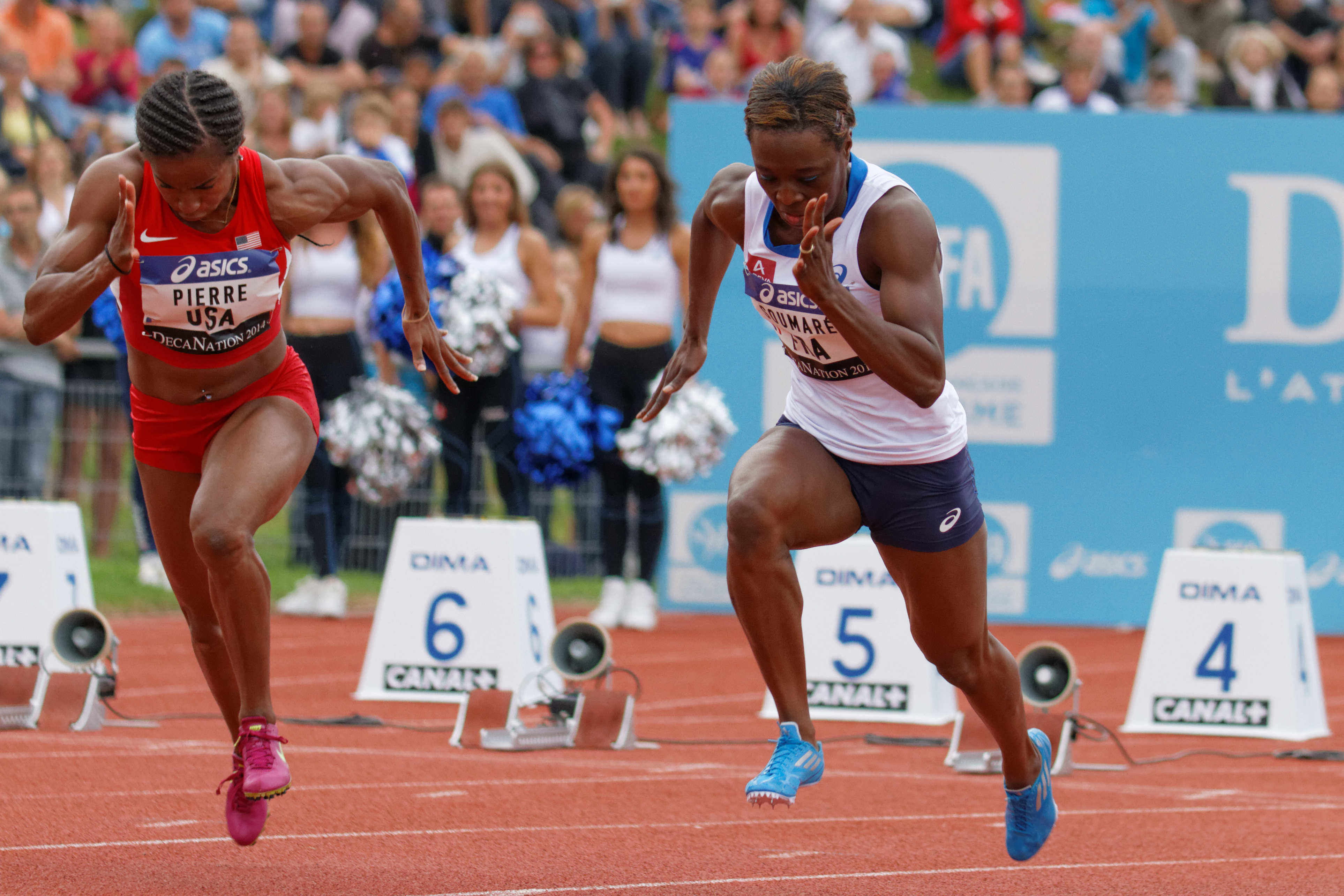 DécaNation 2014. 100m.